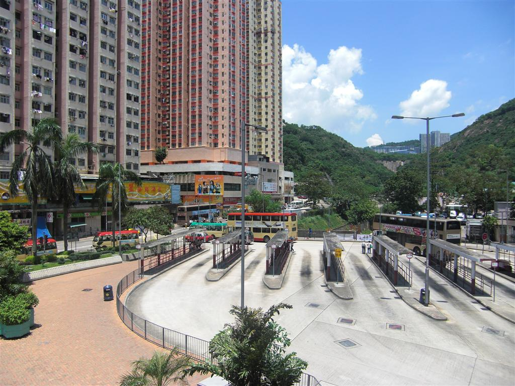 Ngau Tau Kok Bus Terminal in 2008